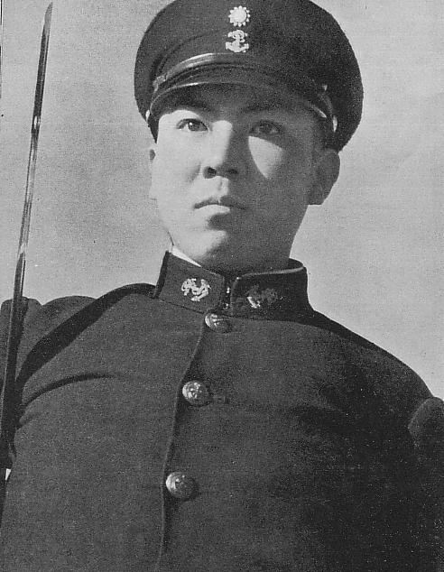 Central Navy School (Wang Jingwei Regime) cadet